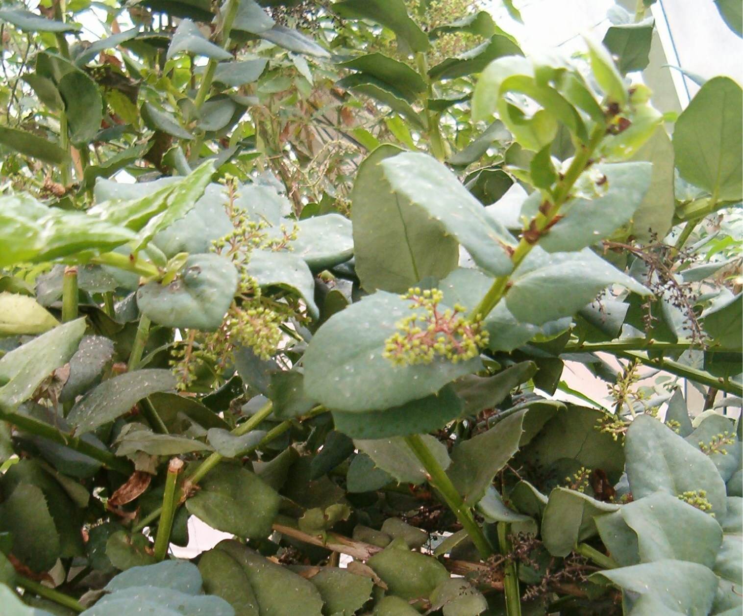 Location: Botanical Gardens Berlin Dahlem